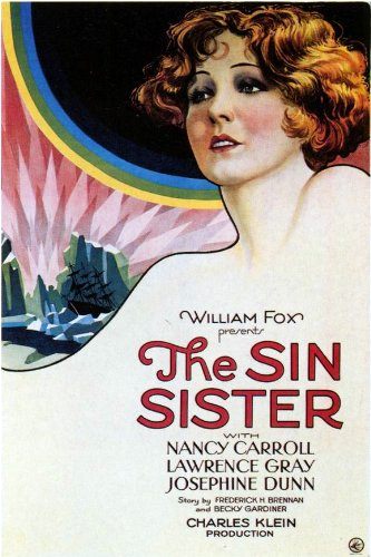 This is a poster for the 1929 American silent drama adventure film The Sin Sister.